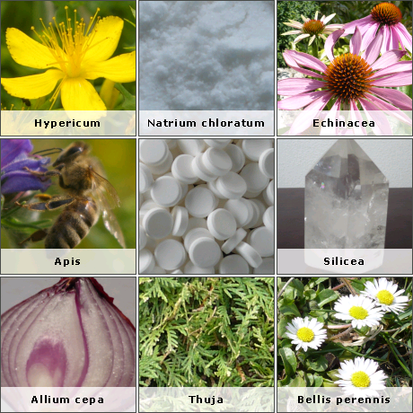 Image: homeopathic substance (new version)